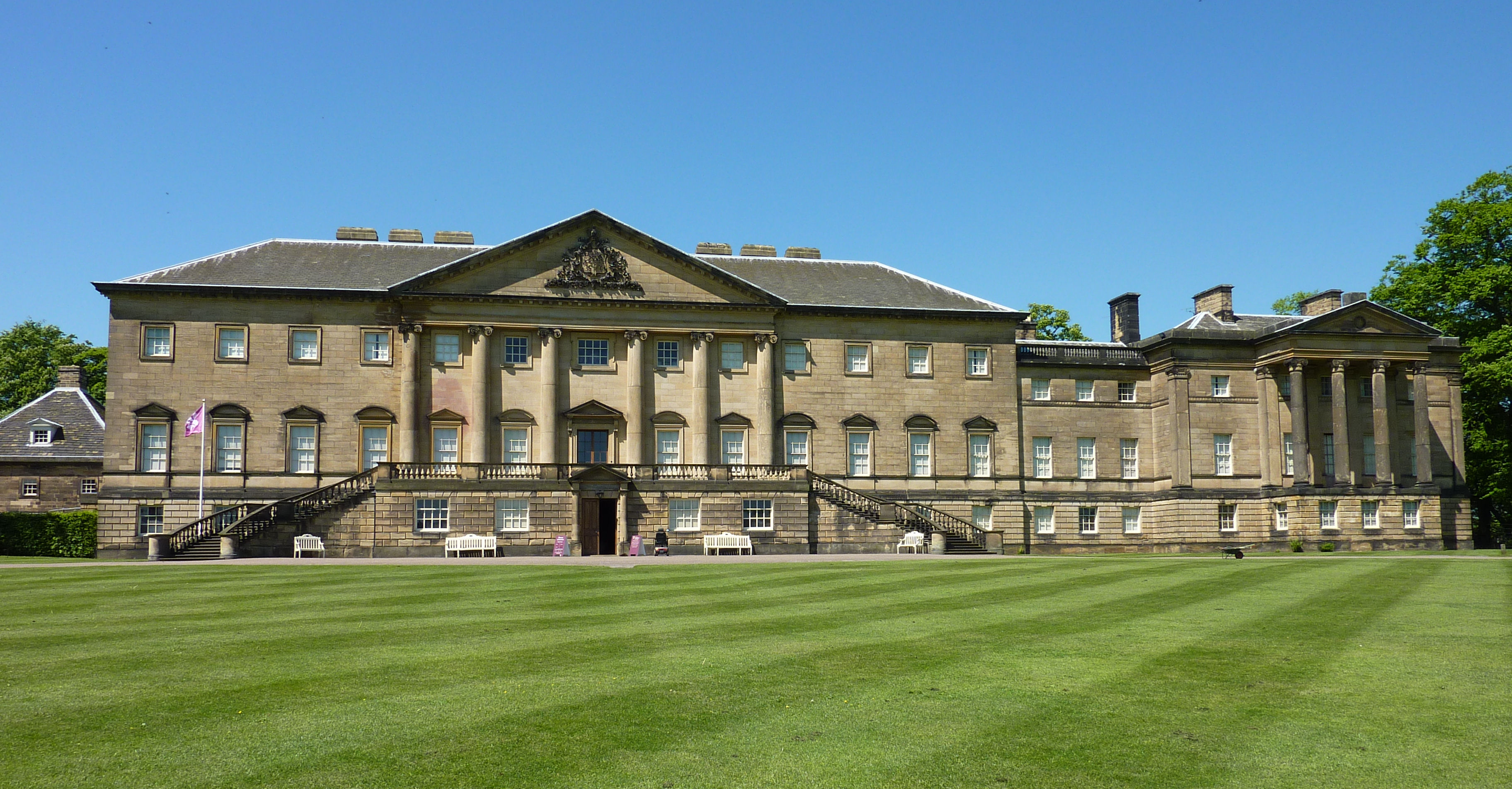 Front elevation to Nostell Priory. A National Trust property in Yorkshire, near Wakefield and Pontefract.